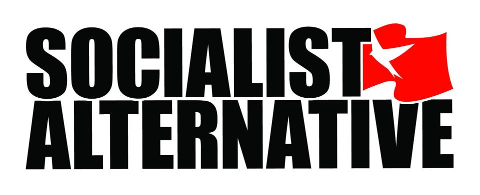 This is the official logo of Socialist Alternative, a US based political organization affiliated with the Committee for a Worker's International.